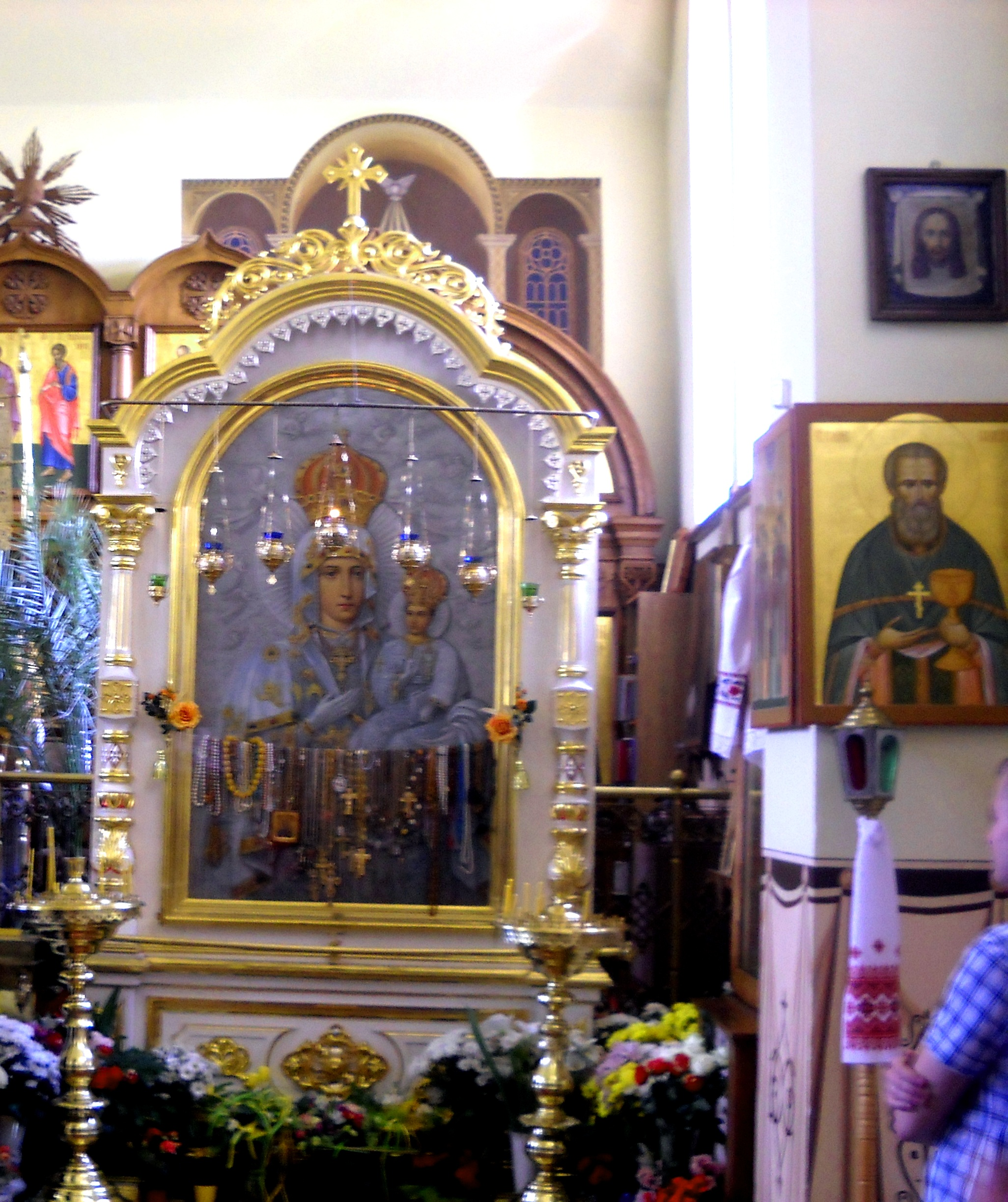 Icon of Mother of God of Supraśl